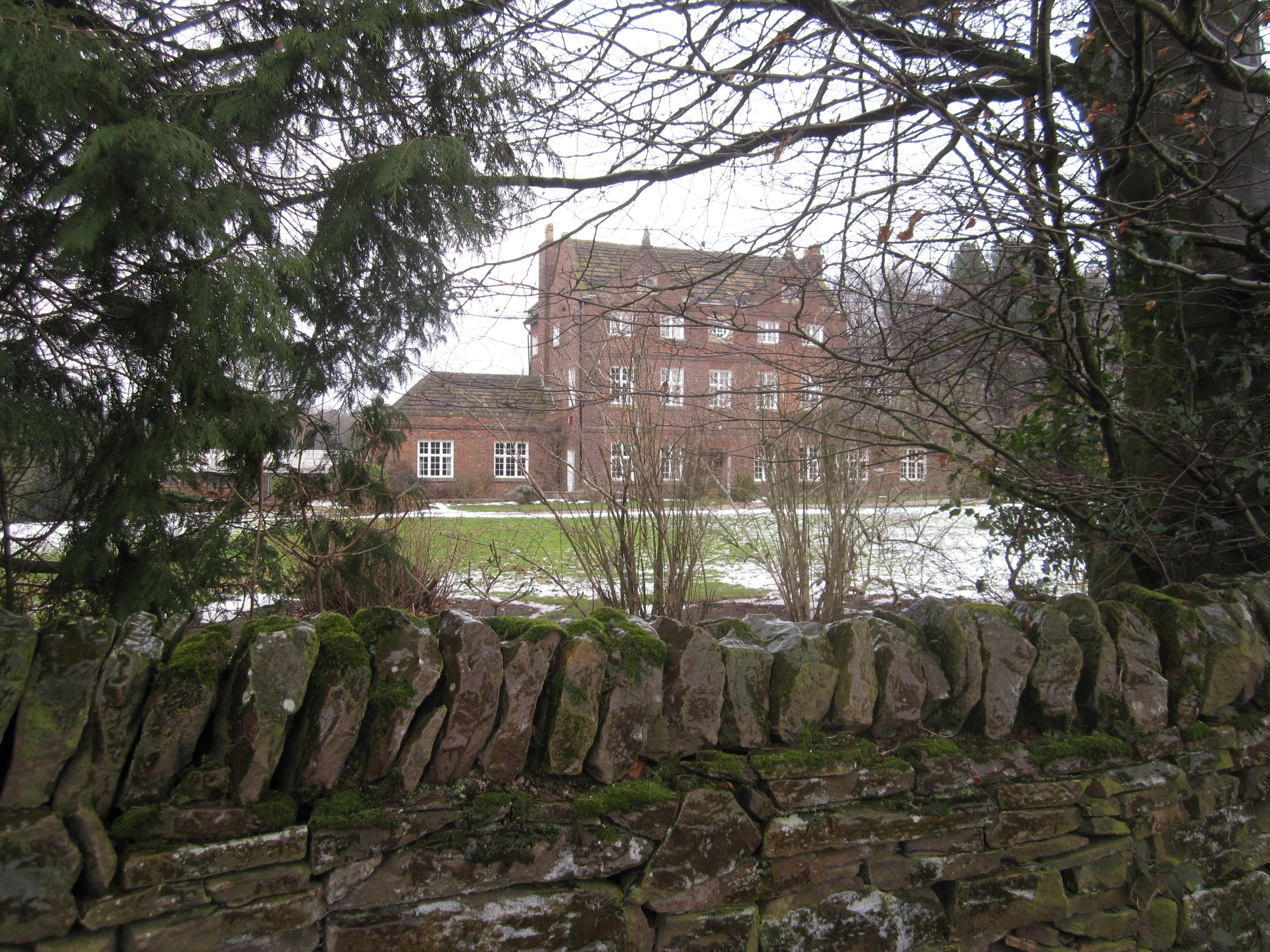 Photograph of Whirley Hall, Over Alderley, Cheshire